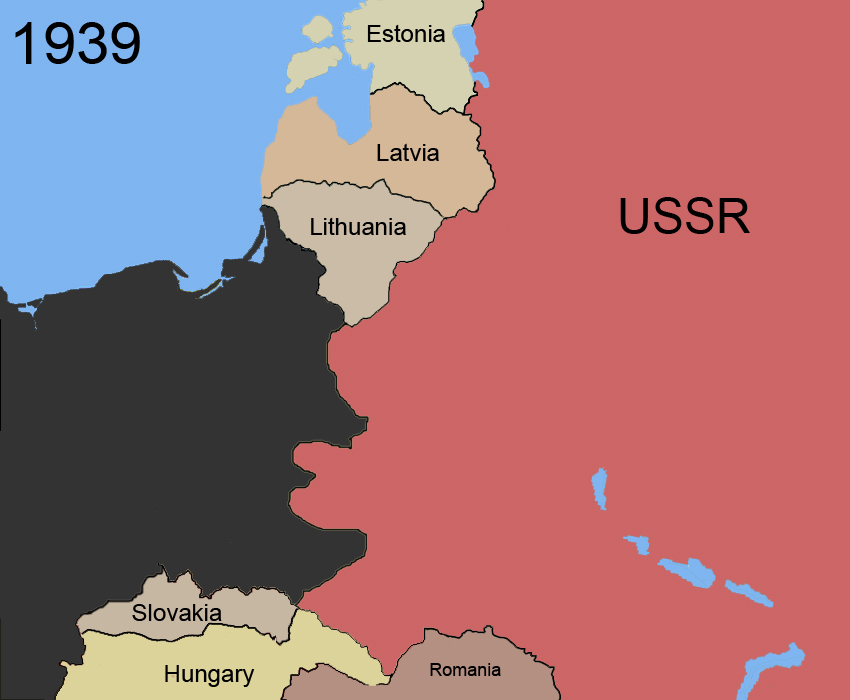 aftermath of the invasion of Poland, 1939